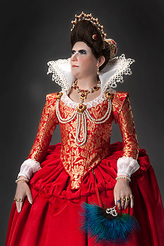 Historical Mixed Media Figure of Elizabeth Bathory produced by artist/historian George S. Stuart and photographed by Peter d'Aprix. This image, from the George S. Stuart Gallery of Historical Figures® archive ( is provided for all uses with appropriate attribution. Any derivatives must be shared in the same manner. Contributor mharrsch is webmaster for the gallery site